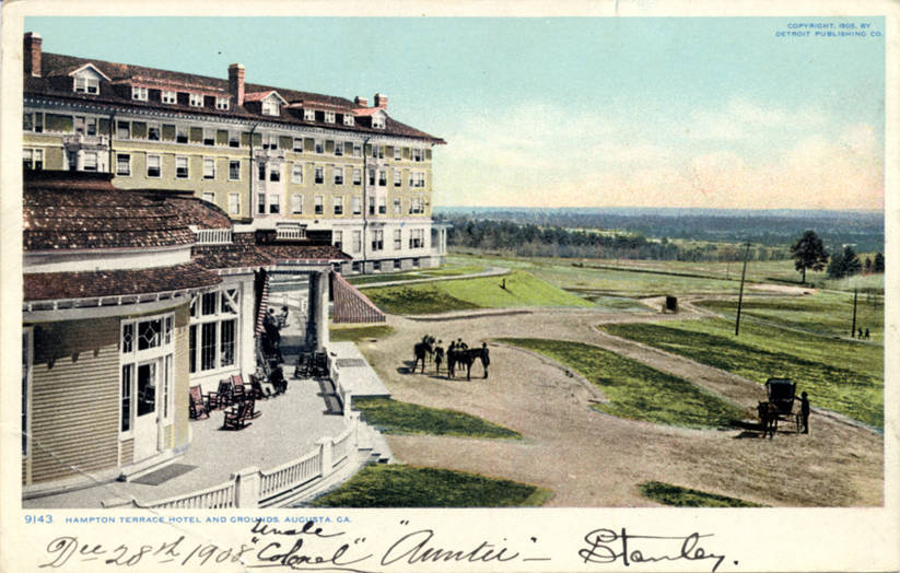 Hampton Terrace Hotel and Grounds